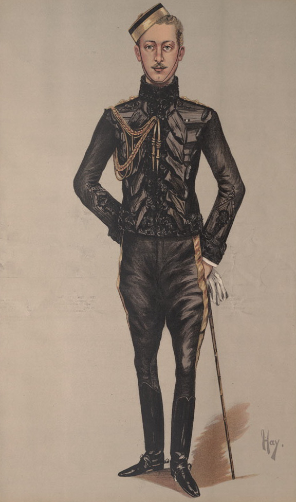 Princes No.9. Caricature of Prince Albert Victor KG KP LLD. Caption reads "Eddie".